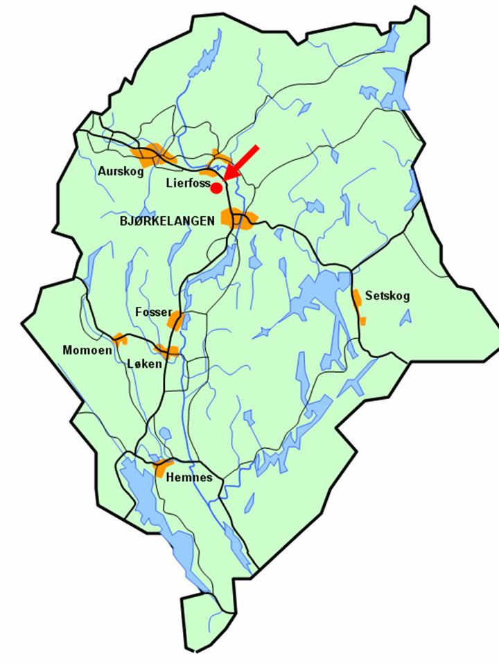 Liertjerns location in Aurskog-Høland.